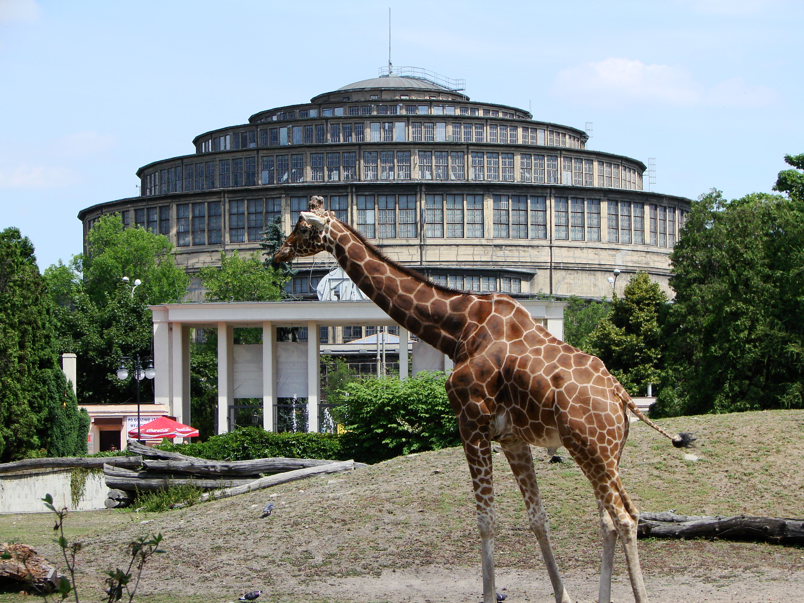 Picture taken in the zoo of Wrocław (Poland): Giraffe in Wrocław zoo and centennial Hall in Wrocław.